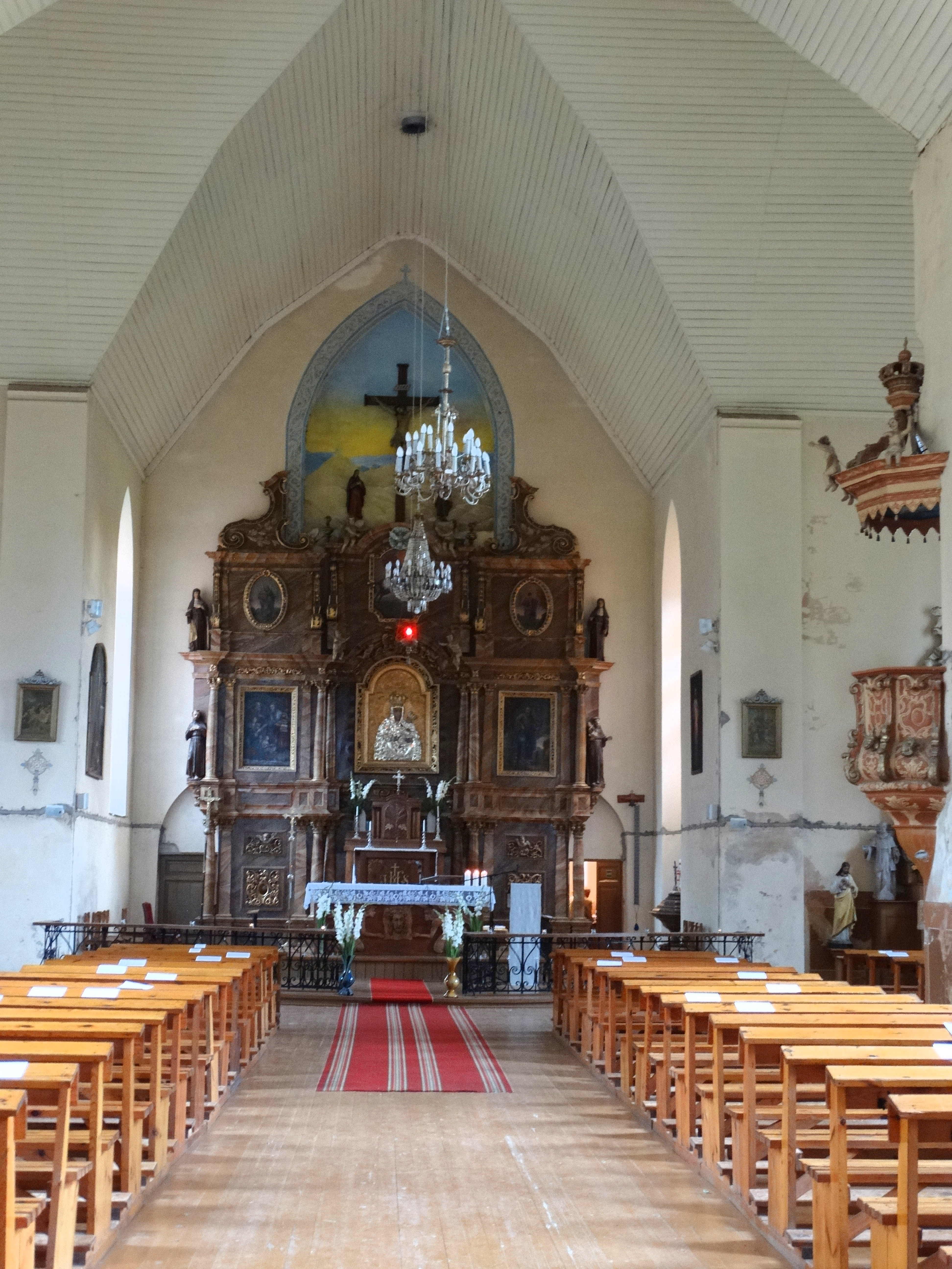 Interior, Saint Mary of the Angels church in Kaltanėnai, Švenčionys district, Lithuania